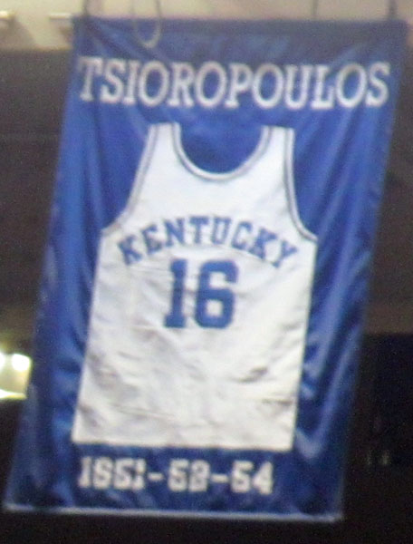 A jersey honoring Lou Tsioropoulos hanging in Rupp Arena in Lexington, Kentucky